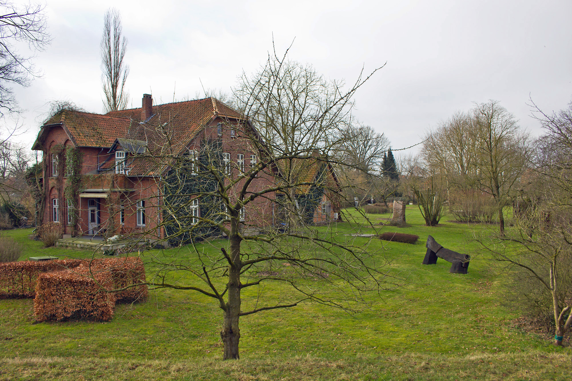 "Sculpture garden" in the village Damnatz (district Lüchow-Dannenberg, northern Germany).